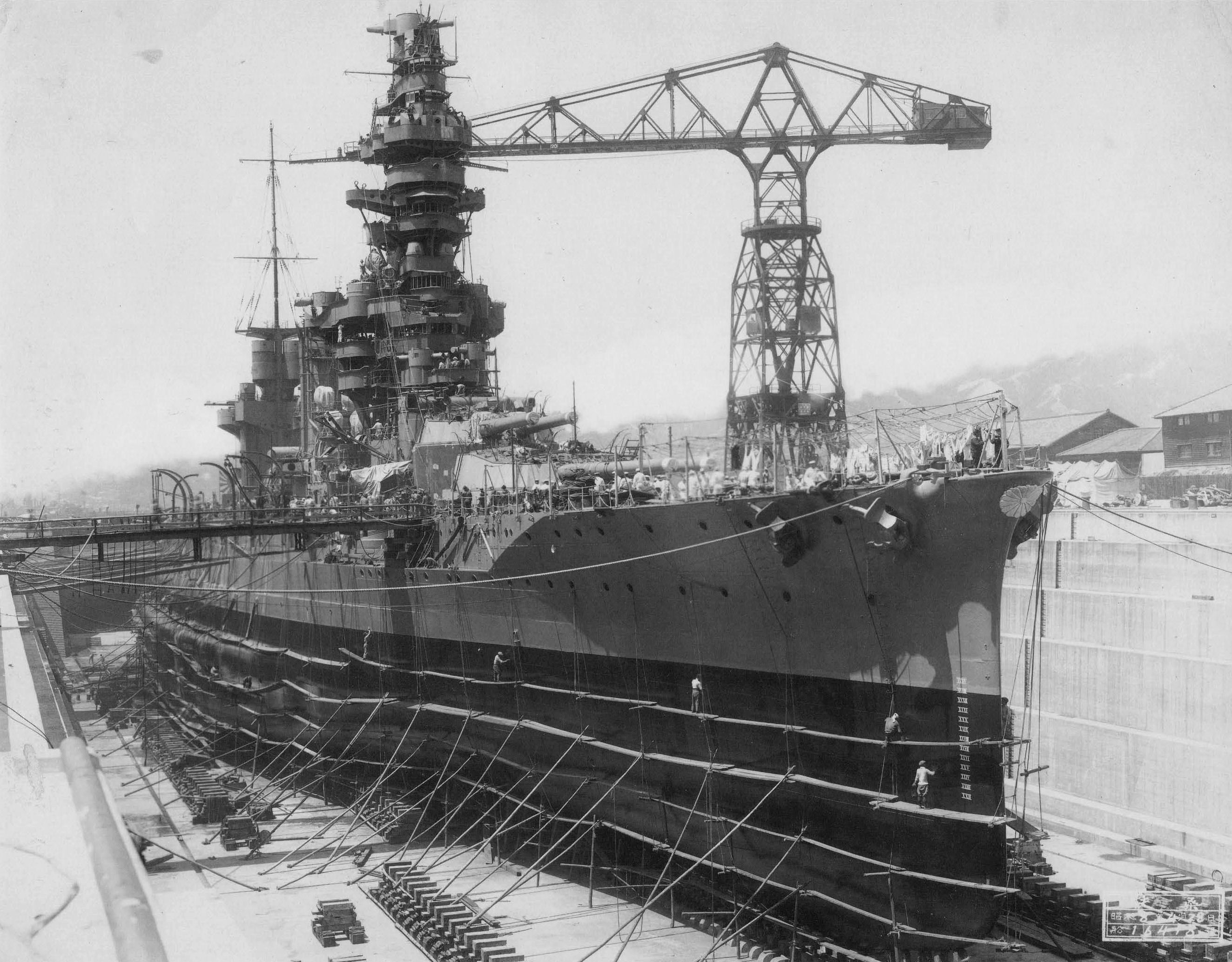 Imperial Japanese Navy battleship Fuso undergoing rennovation and reconstruction in drydock in Kure, Japan. At this time the rennovation was almost complete.